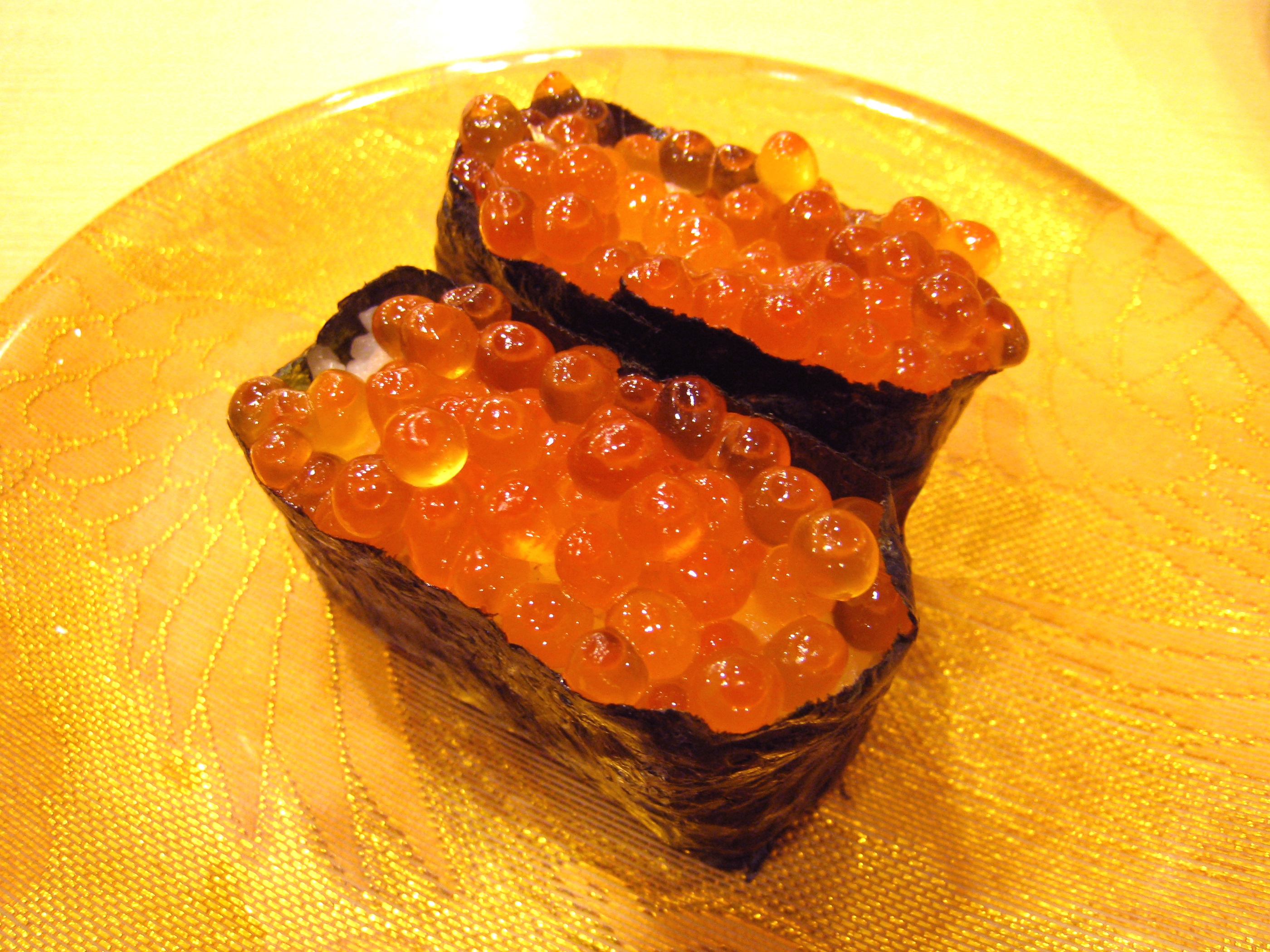 Salmon roe gunkanmaki of conveyor belt sushi restaurant Moriya Sakanaya Uohei in Tsukubamirai City, Ibaraki Prefecture, this photo shoot on October 25, 2008.